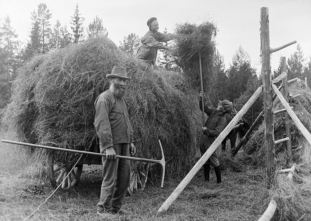 The yeoman farmer Ollas Per Persson and two boys at haymaking, in Almo, Dalecarlia. Hemmansägaren Ollas Per Persson och två pojkar vid höbärgning i Almo. Parish (socken): Siljansnäs Province (landskap): Dalarna Municipality (kommun): Leksand County (län): Dalarna Photograph by: Einar Erici Date: 1930s Format: Glass plate negative Persistent URL: Read more about the photo database (in english)